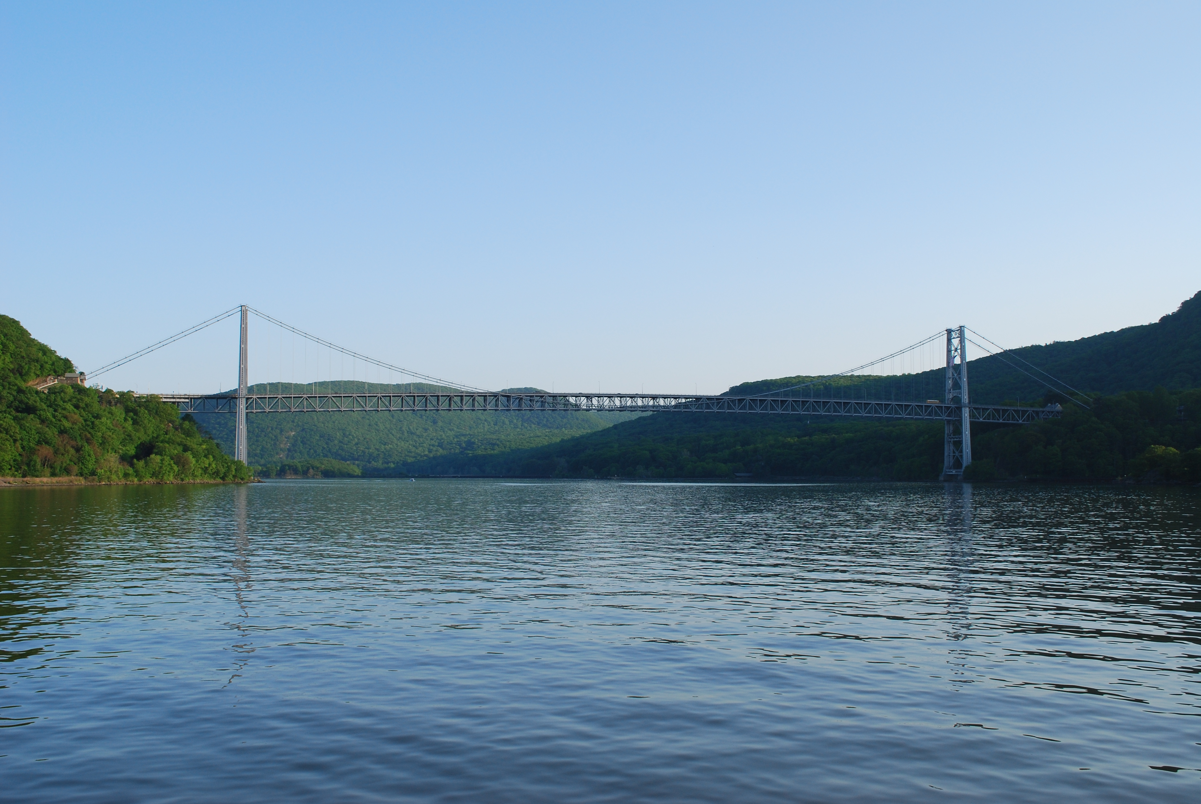 View of the Bear Mountain Bridge (NY) over the Hudson River taken from a boat in the river, May 2009